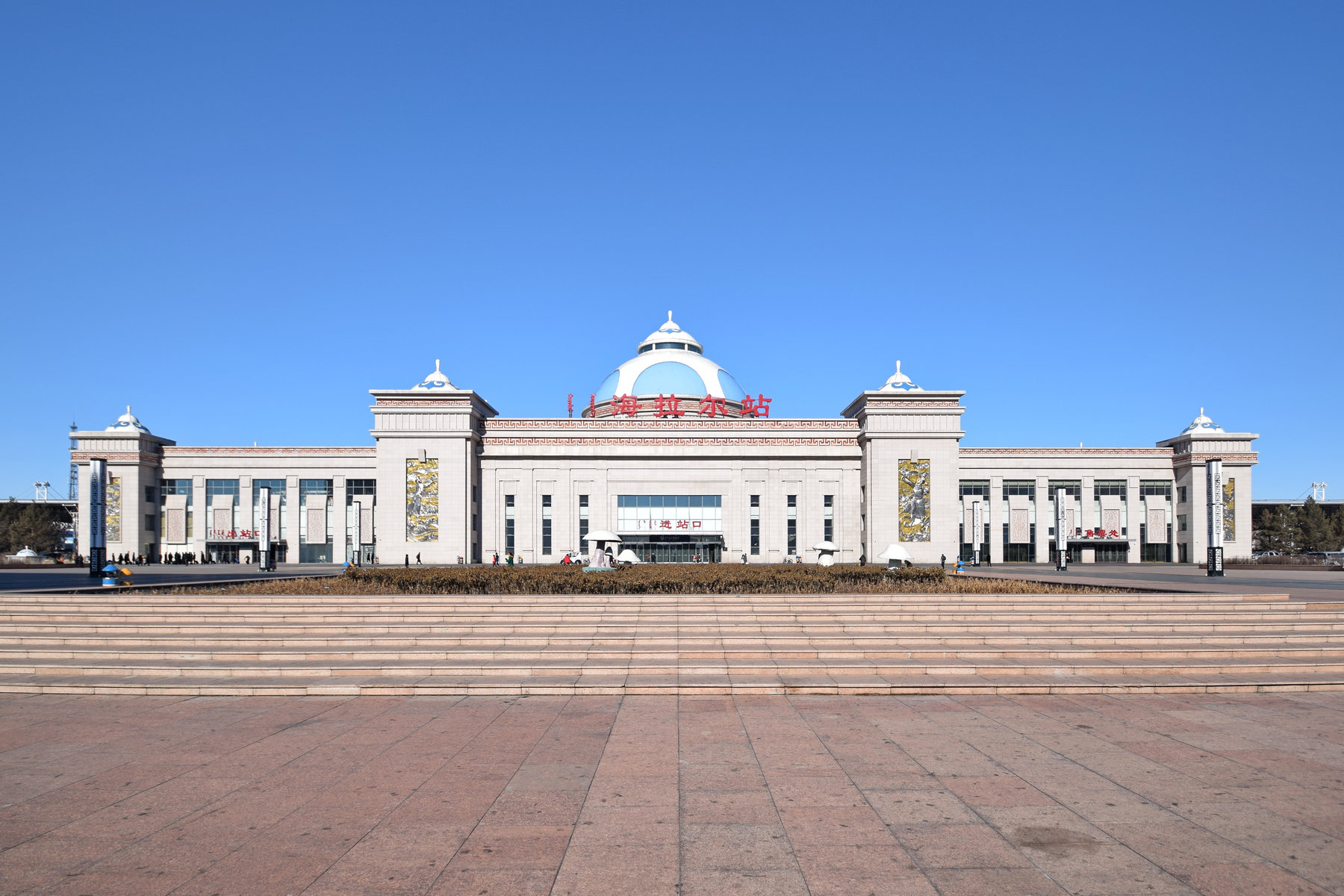 East Square (new station building) of Hailar Railway Station